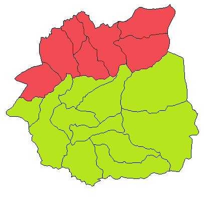 The map of Chungliao aera： ██ Northern Chungliao aera ██ Southern Chungliao aera 中文（台灣）: 中寮鄉南北分區地圖： ██ 北中寮地區 ██ 南中寮地區